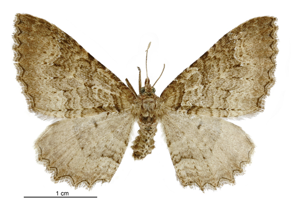 Female specimen of Austrocidaria cedrinodes photographed by Birgit E. Rhode, Landcare Research New Zealand Ltd.